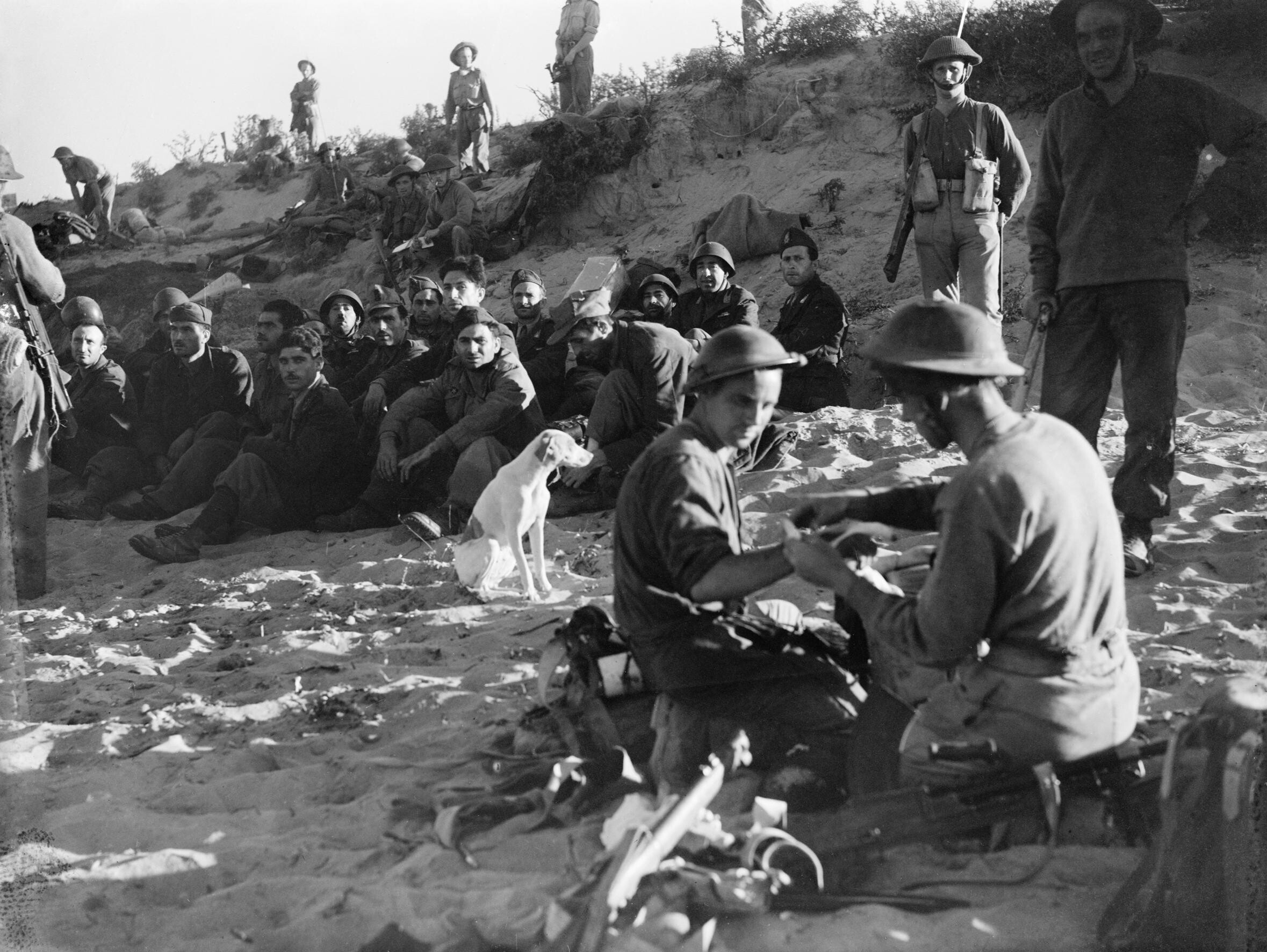 British wounded being treated, and Italian prisoners waiting to be evacuated from the beach on the first day of the invasion of Sicily, 10 July 1943. Italian prisoners of war waiting to be taken from Sicily at dawn of the opening day of the invasion. In the foreground a British soldier is having a slight wound dressed.